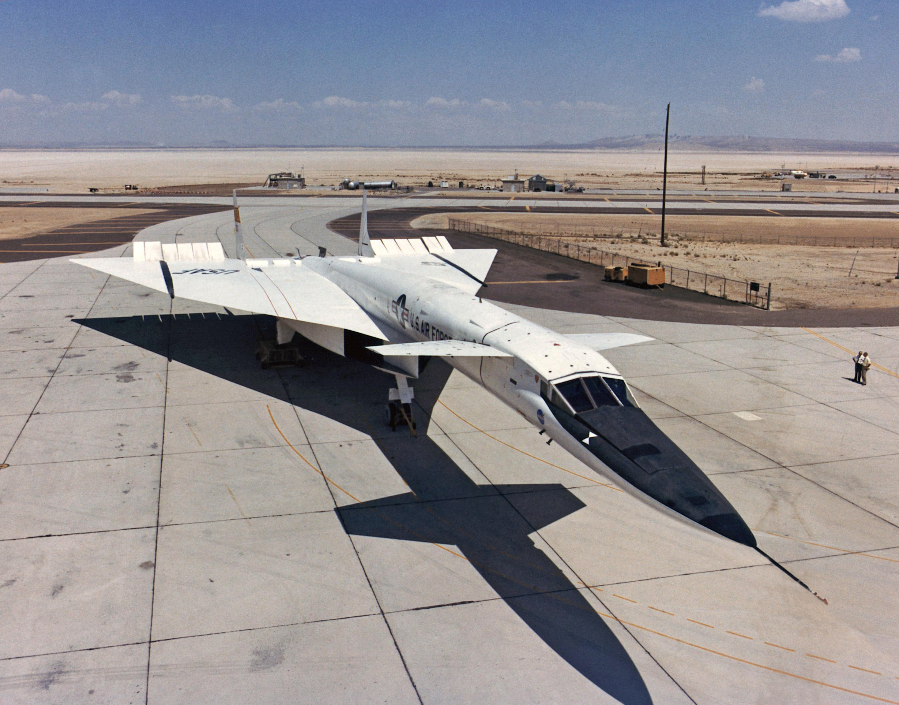 XB-70A parked on a ramp at Edwards Air Force Base in 1967. Originally designed as a Mach 3 bomber, the XB-70A never went into production and instead was used for flight research involving the Air Force and NASA's Flight Research Center FRC, which was a predecessor of today's NASA Dryden Flight Research Center. The aircraft's shadow indicates its unusual planform. This featured two canards behind the cockpit, followed by a large, triangular delta wing. The outboard portions of the wing were hinged so they could be folded down for improved high-speed stability.